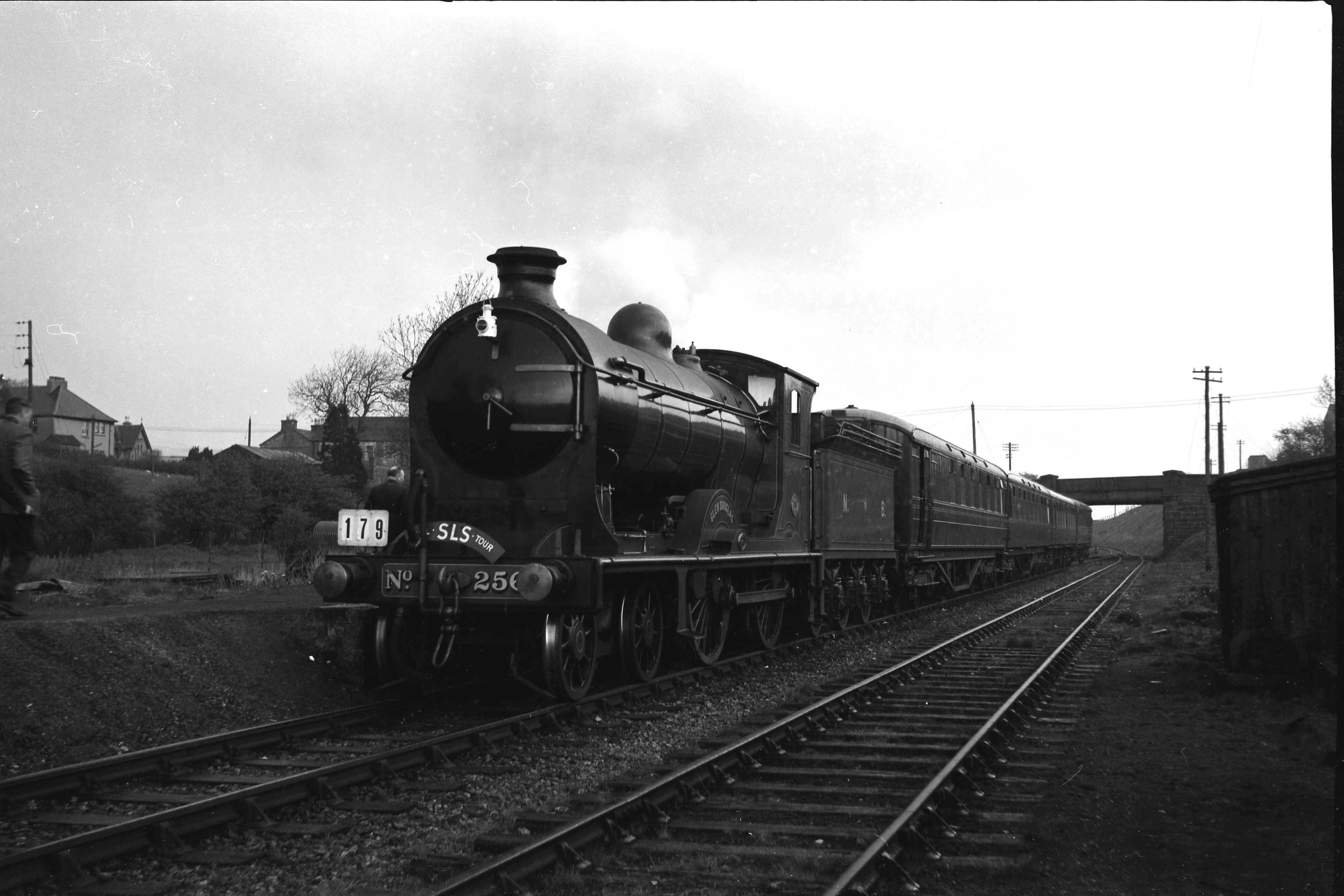 Torrance on the Kelvin Valley Railway in Scotland in 1960 with a railtour. The train was hauled by preserved steam locomotive Glen Douglas